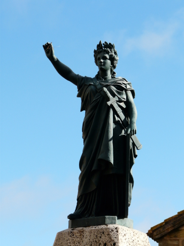 Statue of Republic, Boutenac, Aude, France